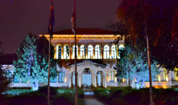 Elenion Primary school Nicosia Republic of Cyprus